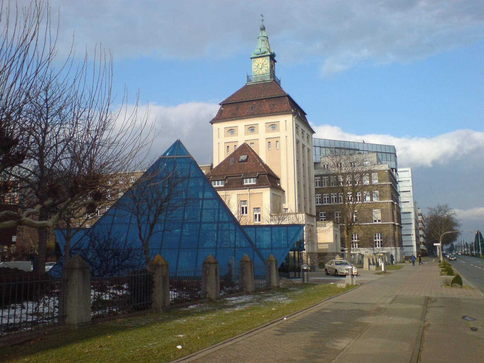 The new reception 'pyramid' of Merck in Darmstadt, Germany. Looking approximately northwards.